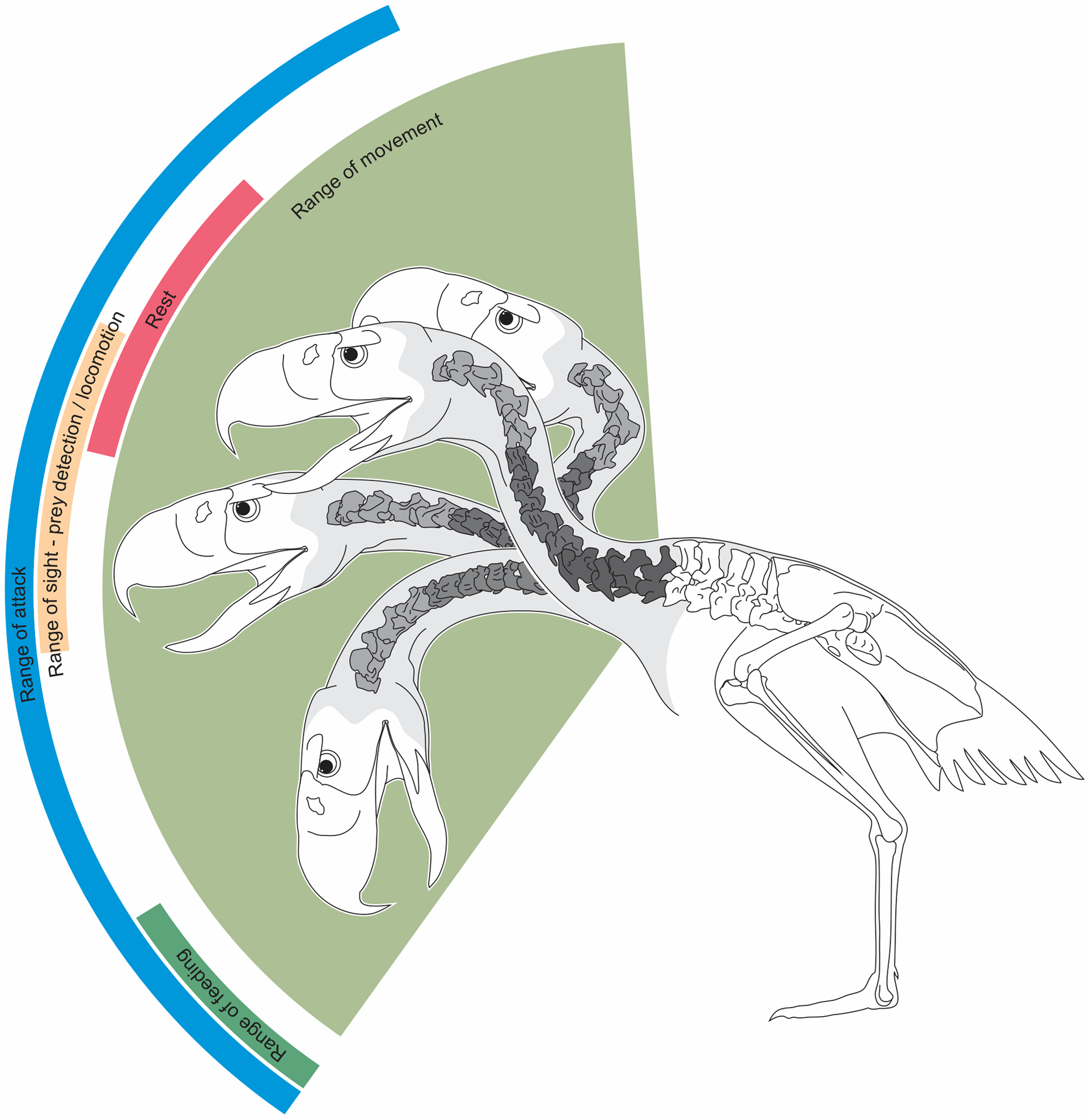 figure 7 of the PLoS study: "Flexibility along the Neck of the Neogene Terror Bird Andalgalornis steulleti (Aves Phorusrhacidae)": Hypothetical range of dorsoventral (= up and down) movements of the neck of Andalgalornis